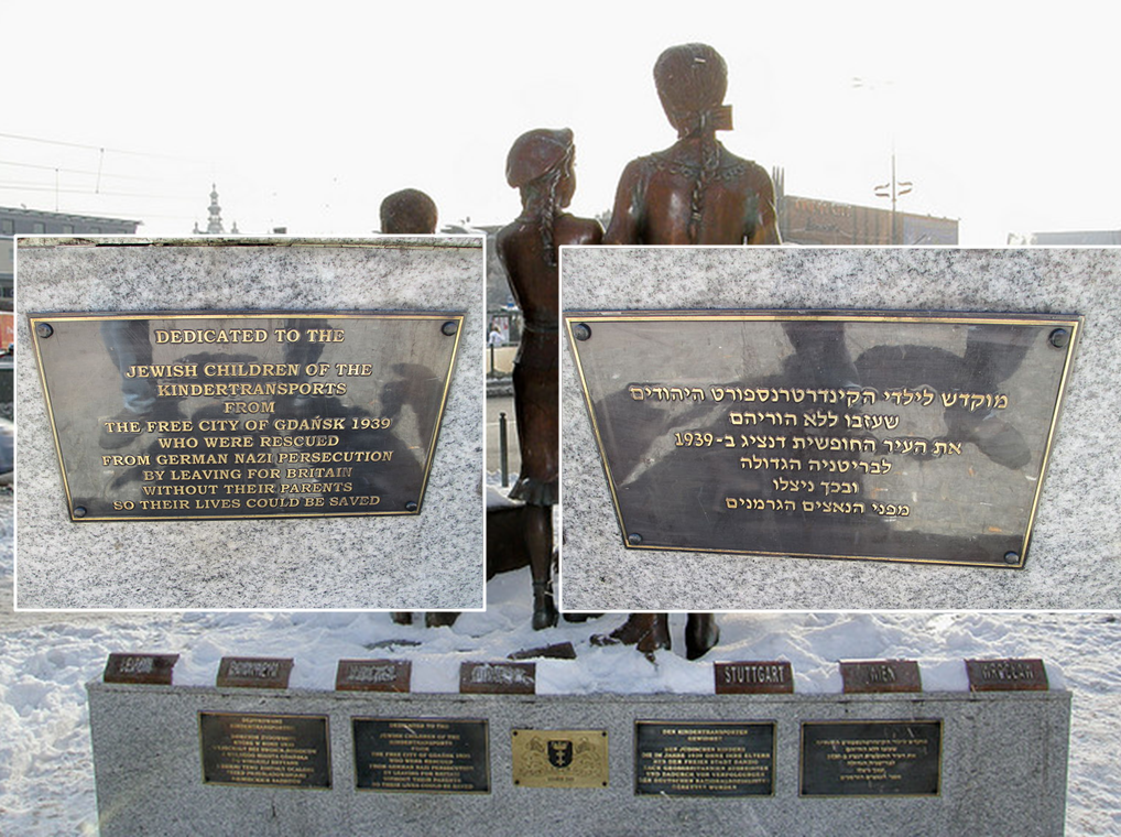 Kindertransport memorial, Gdansk, Commemorative plaque (2009) - "The departure"